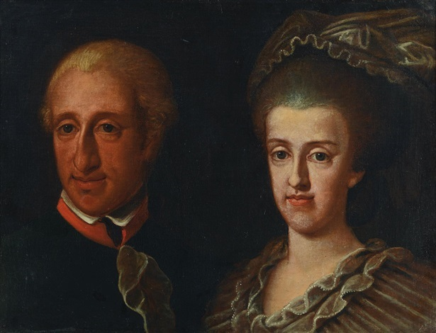 Ferdinand IV of Naples and Maria Carolina of Austria